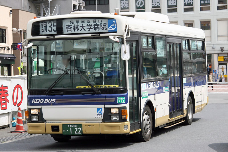 Keio Bus Higashi's route bus (Car No.L10052 / Isuzu Erga Mio KK-LR333J1 / IBS body) at Chofu Station, Chofu, Tokyo, Japan